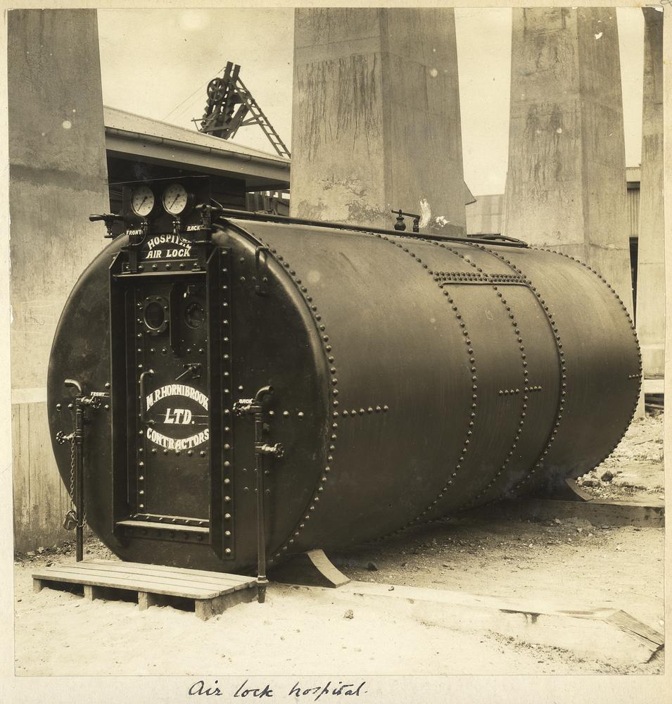 Hospital air lock at the Grey Street Bridge construction site, 1930.